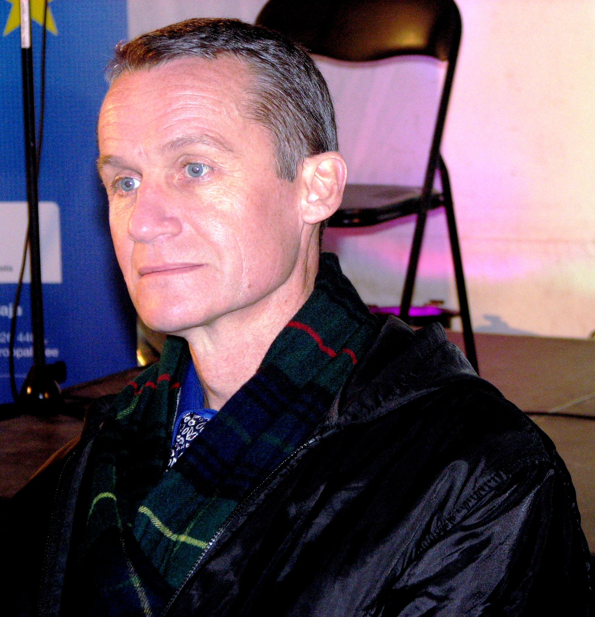 Andreï Makine performing in Tallinn Literature Festival HeadRead